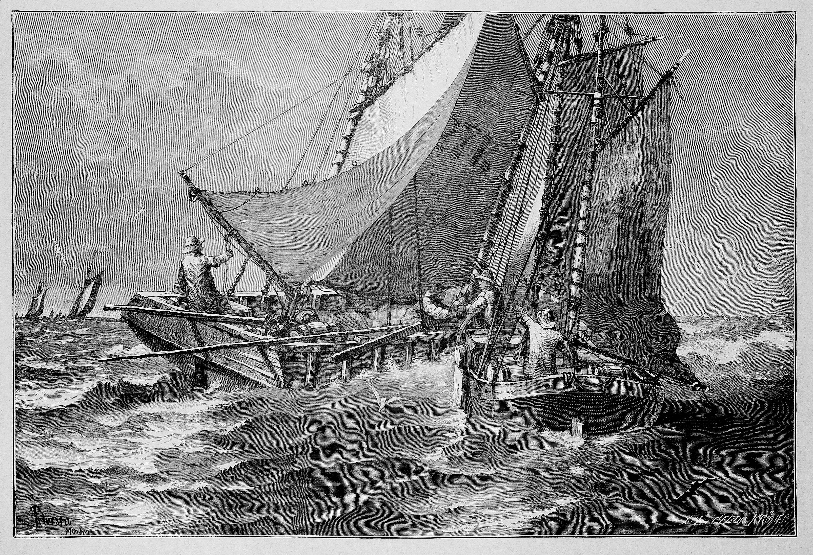 caption: "Schnapshandel auf freier Nordsee.Originalzeichnung von Hans Petersen"